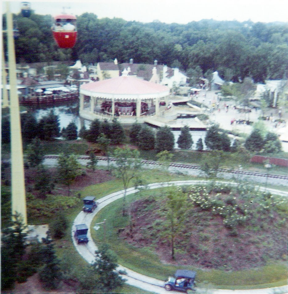 View from the Skyride at Opryland themepark in Nashville, Tennessee